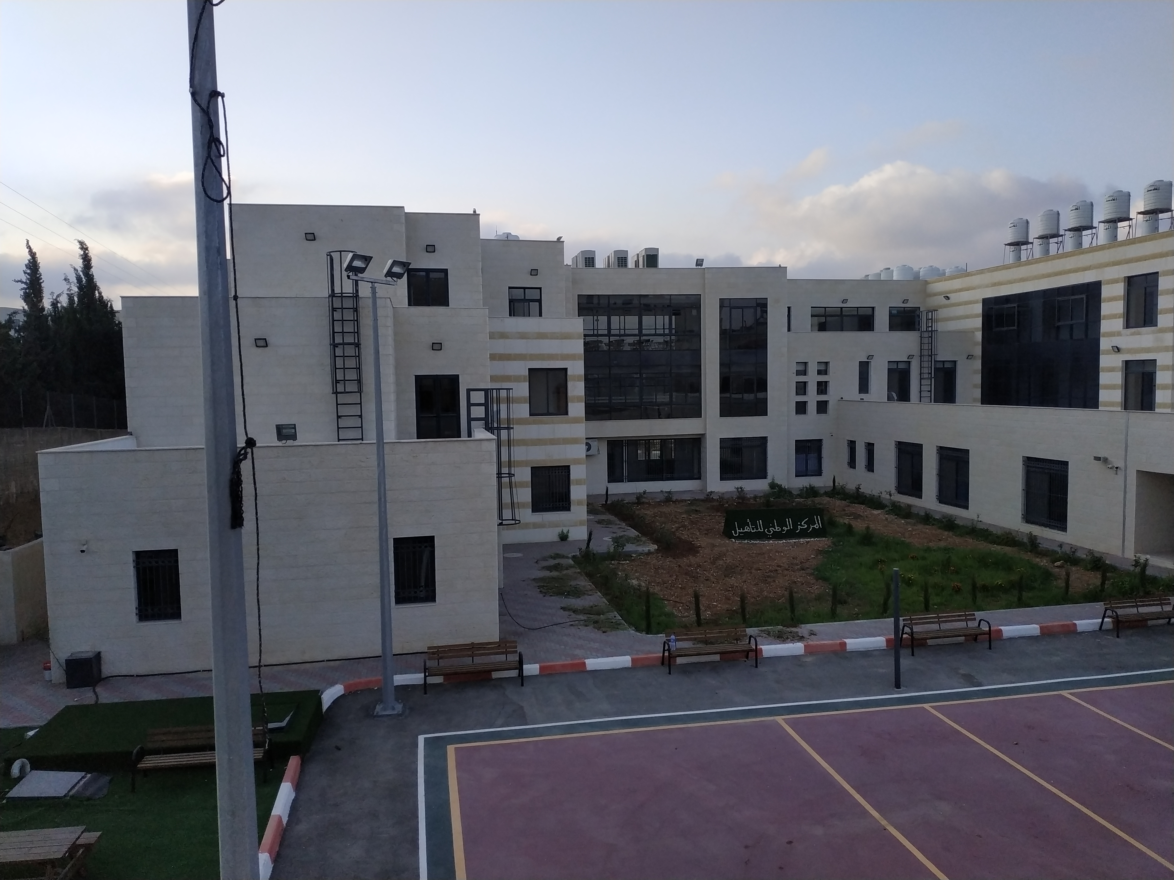 National Rehabilitation Center Building, Bethlehem, State of Palestine 2018